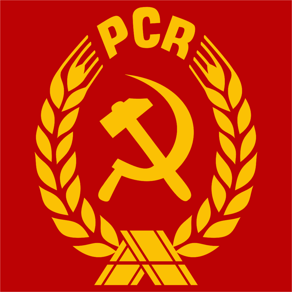 Logo of the Romanian Communist Party